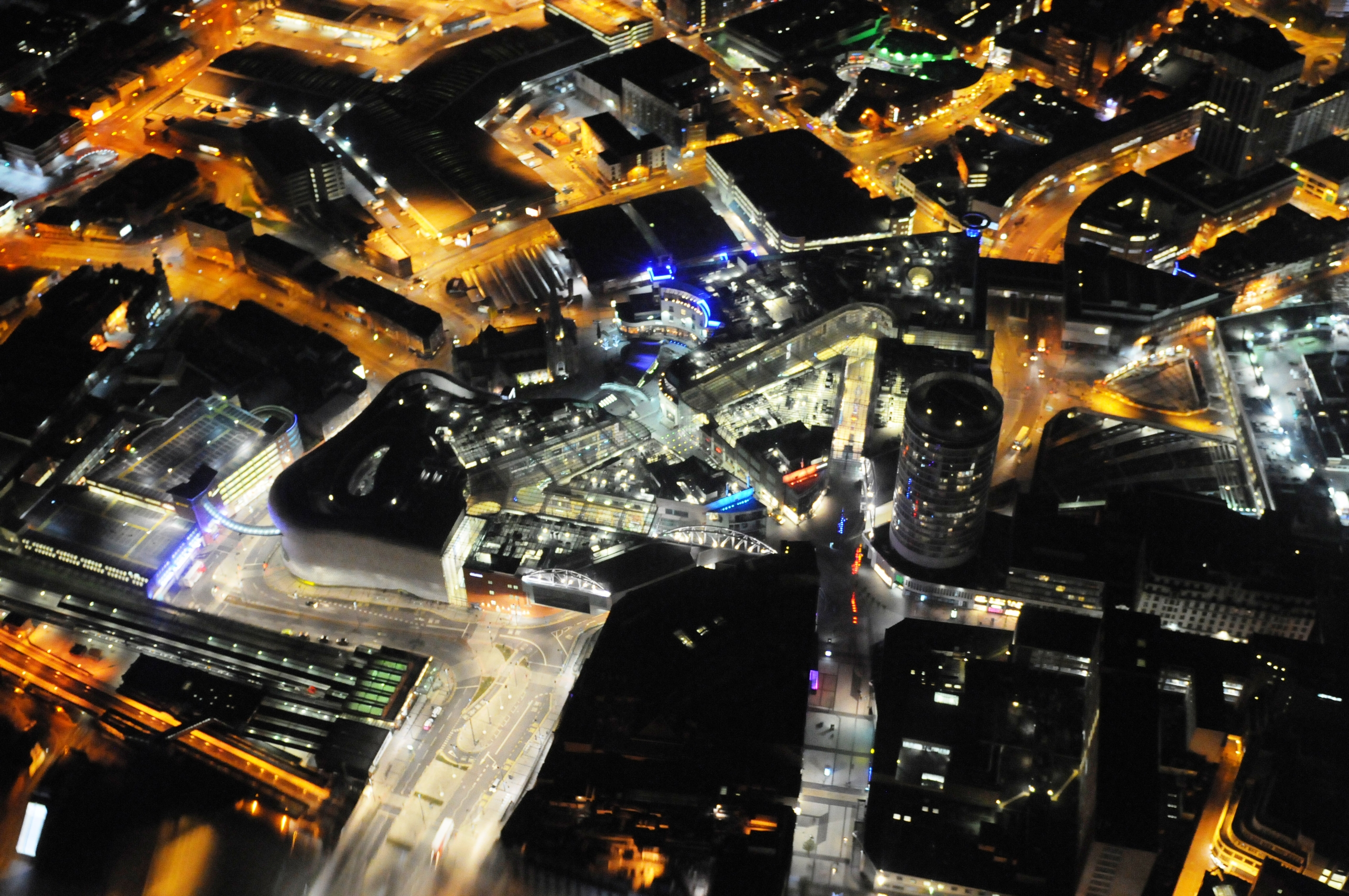 The Bull Ring area of Birmingham, at night, including the BullRing shopping centre, Selfridges (left of centre), New Street Station (right of centre), Moor Street Station (bottom left, with Green-hued skylights) and Digbeth. The view is approximeaty to the West.